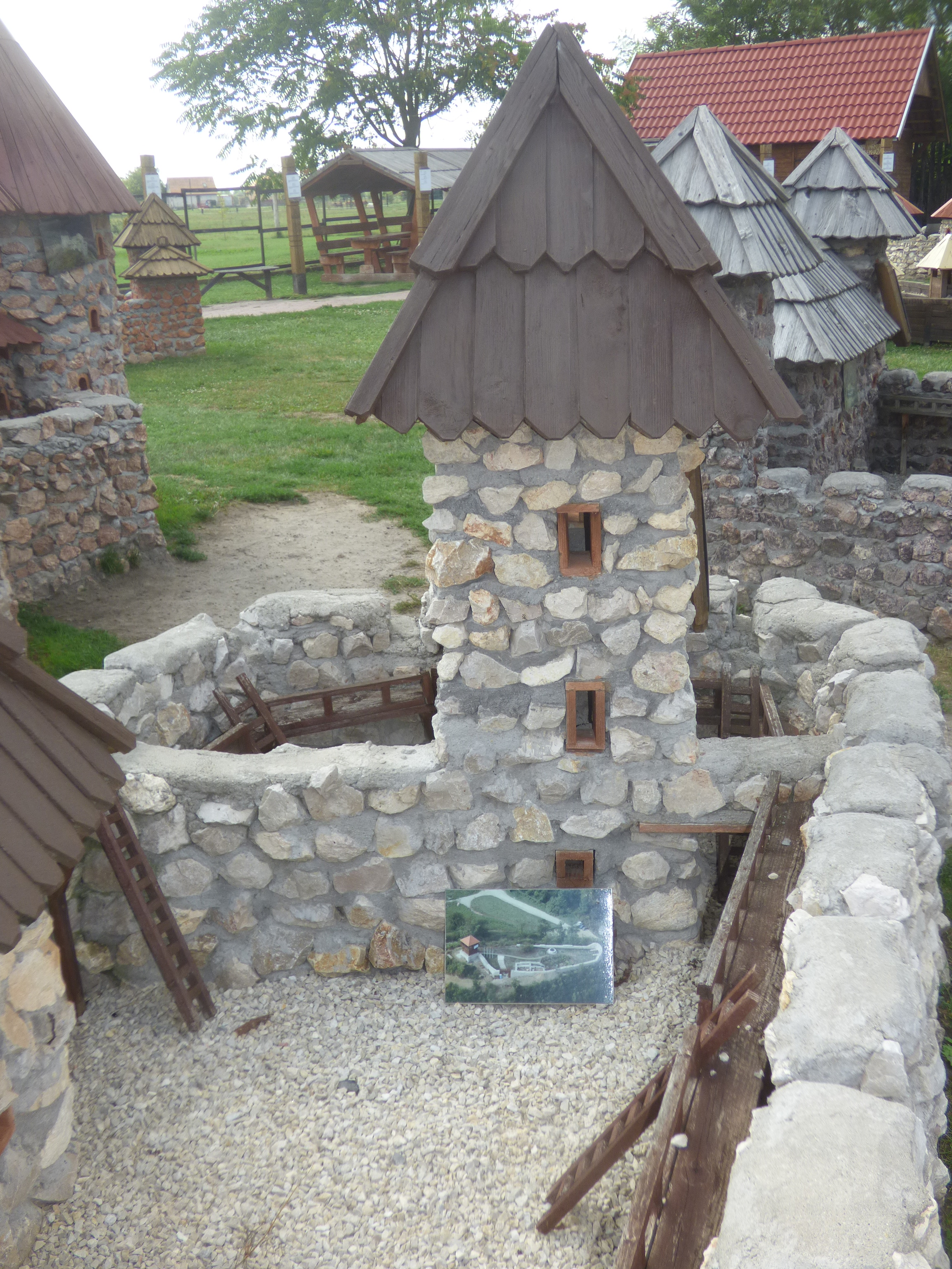 A solymári vár makettjének egy részlete a dinnyési Várparkban